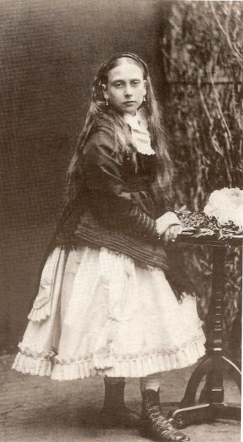 Princess Beatrice, photographed by Royal Photographers W & D Downey, 1868